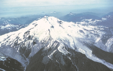 Glacier Peak, Washington, USA